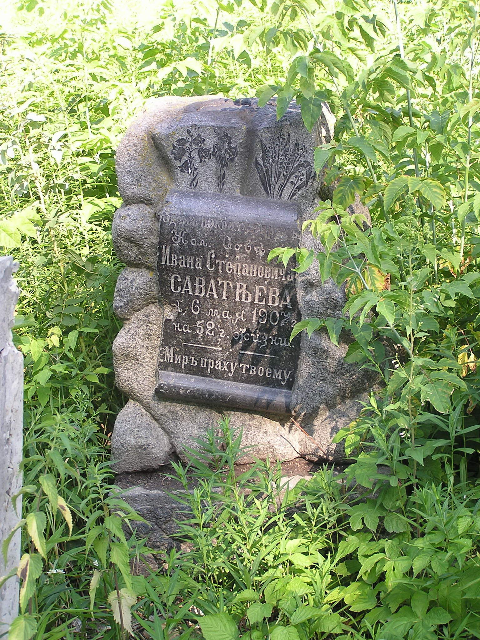 Headstone in the Borznas graveyard